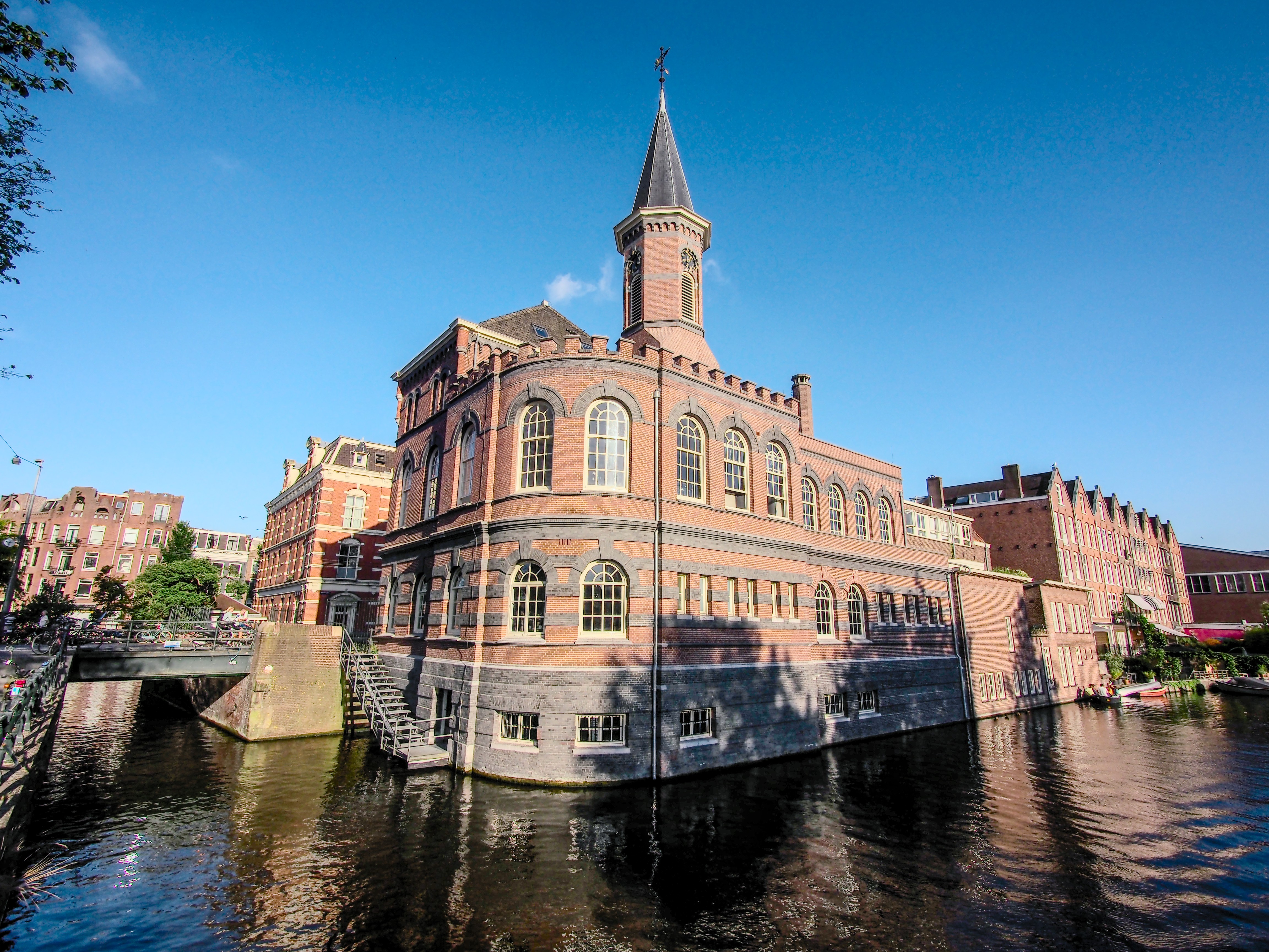 Photographed in Amsterdam.